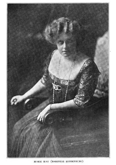 Lady Agnes Blanche Marie Hay-Drummond, Agnes Blanche Marie Freifrau von Beneckendorff von Hindenburg